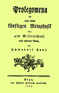 Front cover of Prolegomena to Any Future Metaphysics (German edition)